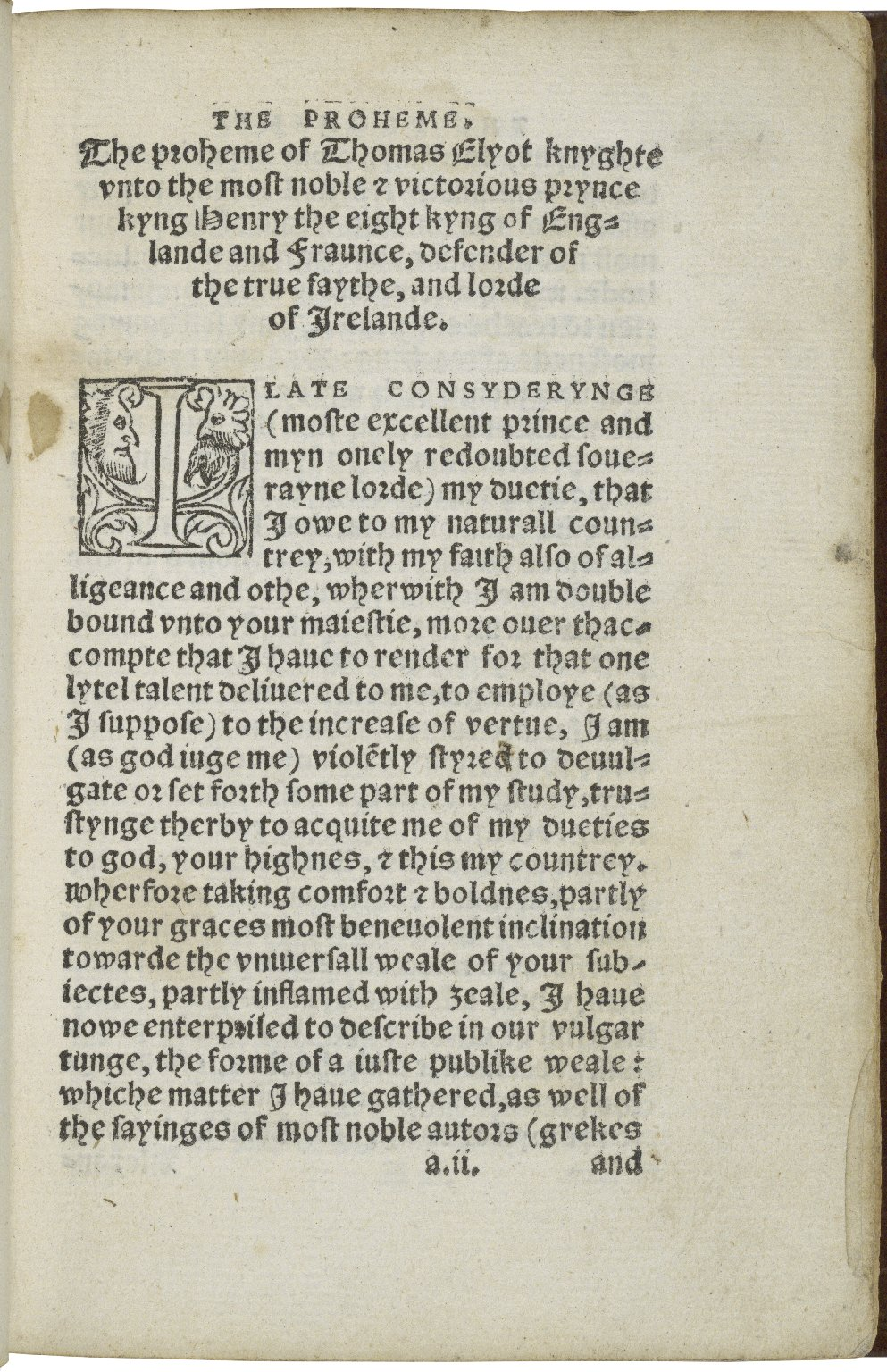 The first page of The boke named the Gouervnour, deuysed by syr Thomas Elyot knight. A source text for Shakespeare's The Two Gentlemen of Verona.